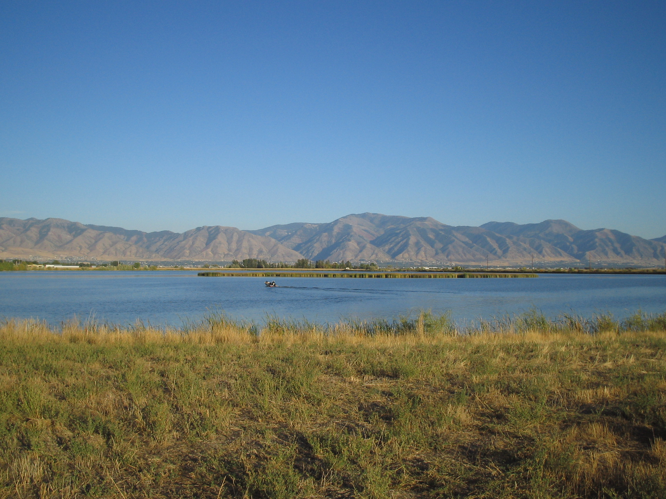 The Cutler Reservoir in the Cache Valley, Utah. (the view is possibly northwestwards, the hill region at the north of the Wellsville Mountains. Cutler Reservoir is circuitous with various arms: the Little Bear River merges into the Bear River at the reservoir.)